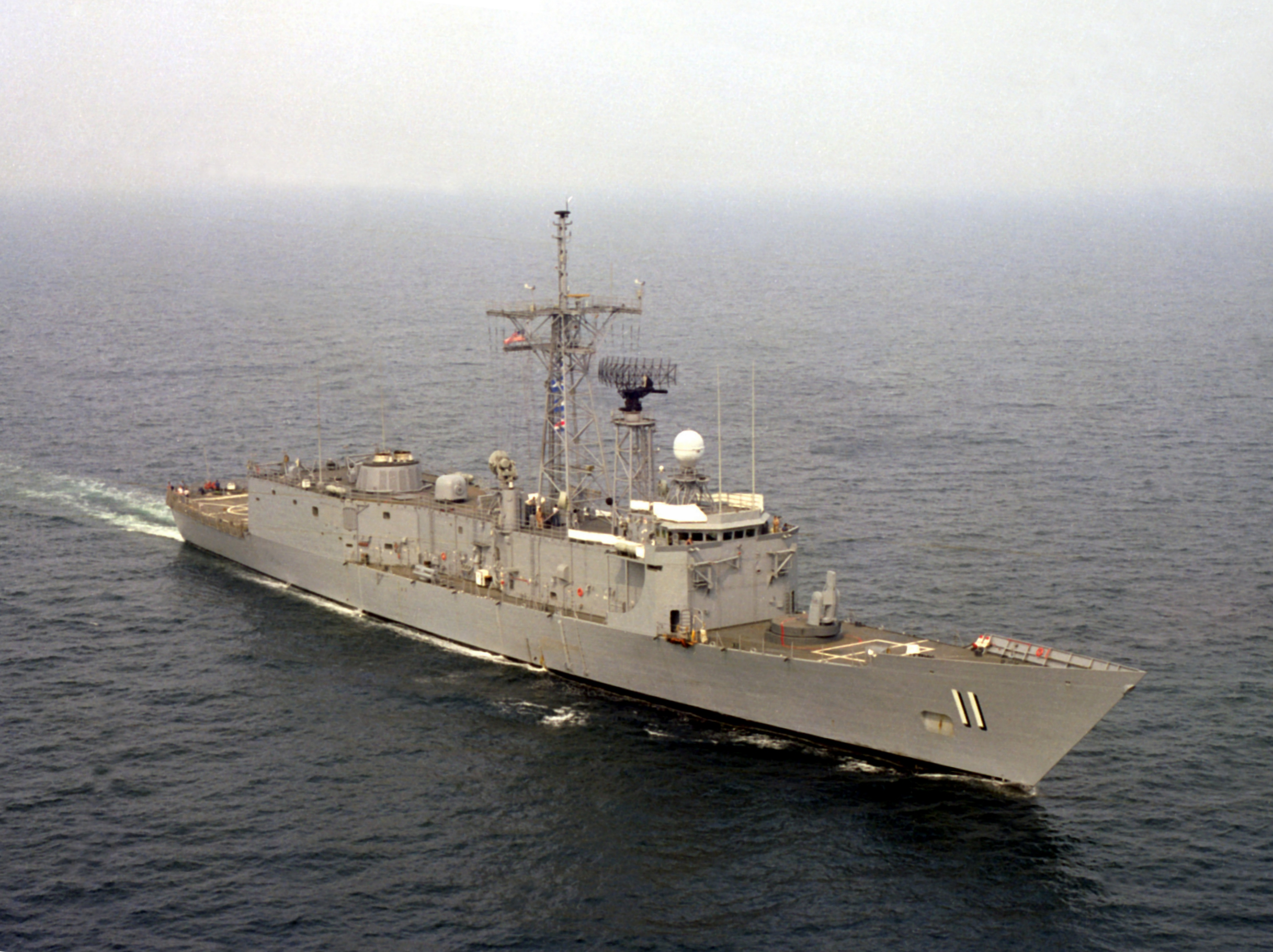 A starboard bow view of the U.S. Navy guided missile frigate USS Clark (FFG-11) underway in the Atlantic Ocean on 1 October 1981. The ship was returning to her home port of Mayport, Florida (USA), following a three-week Caribbean cruise.